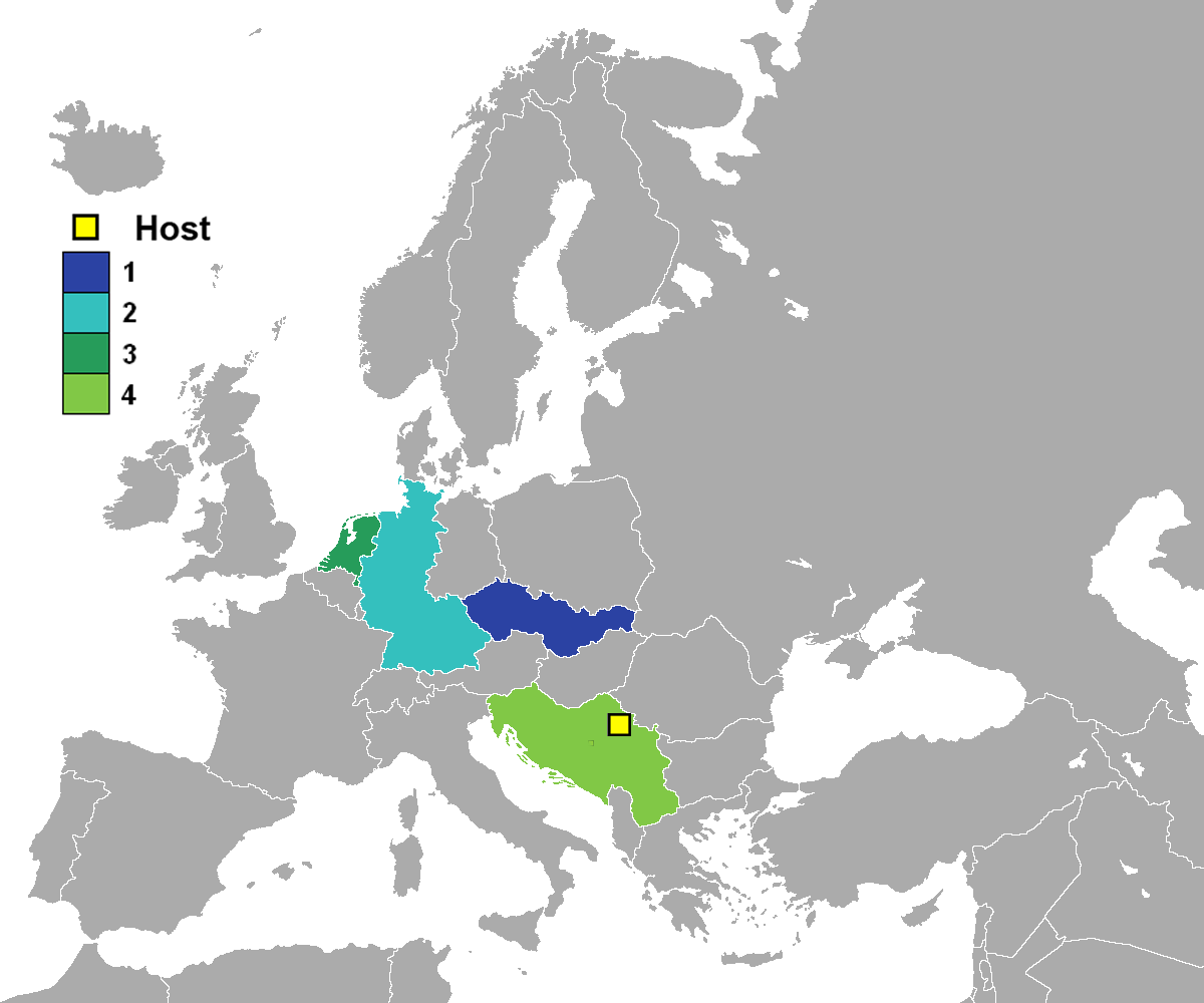 UEFA European Football Championship 1976 final team ranking, showing: Winner (dark blue) Runner-up (light blue) 3rd (dark green) 4th (light green) Yellow square is host nation (Yugoslavia).